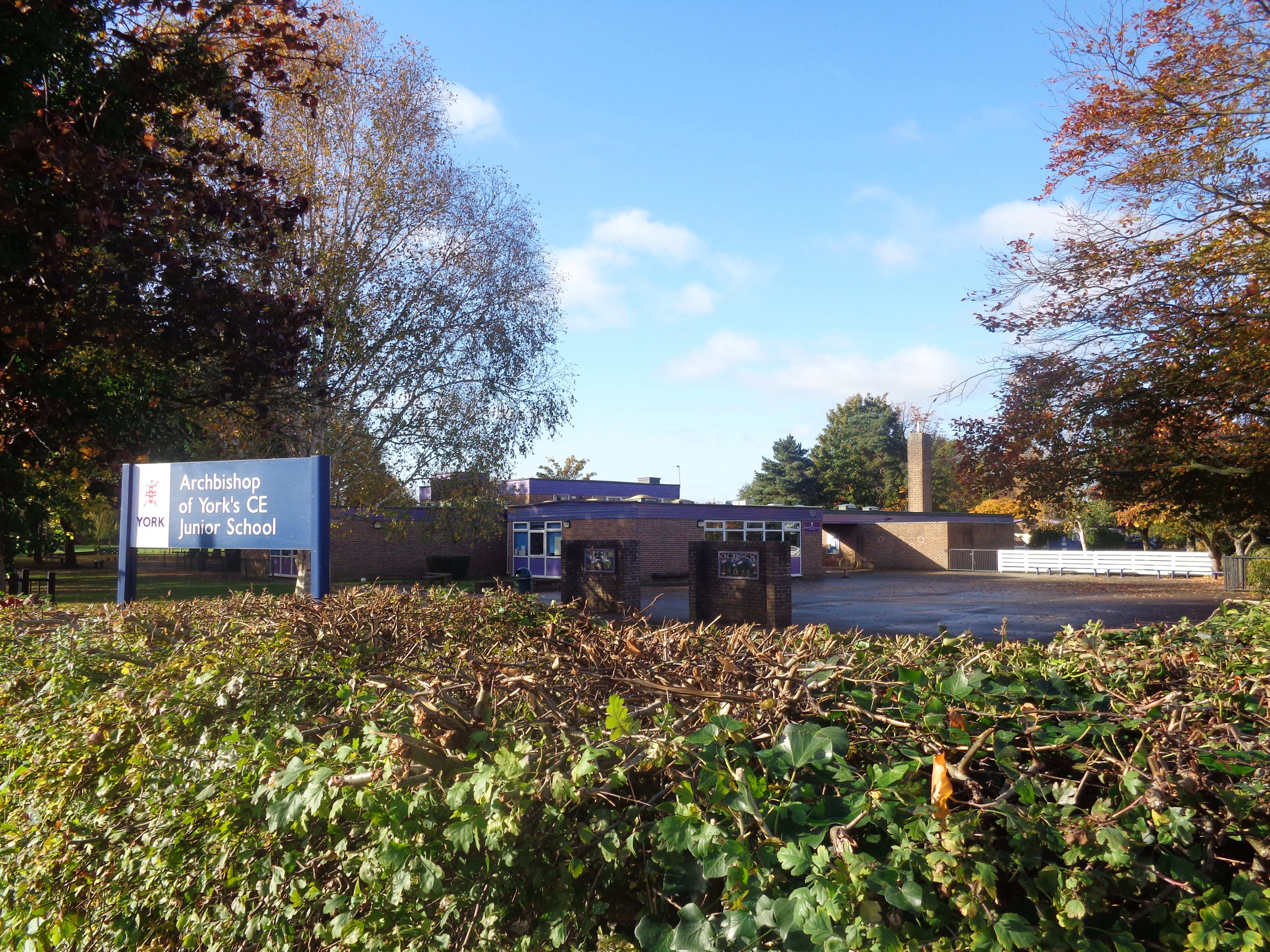 Archbishop of York's Church of England Junior School seen from Copmanthorpe Lane (although the picture is taken from Appleton Road), Bishopthorpe, York, North Yorkshire. Taken around midday on Friday the 4th of November 2016.